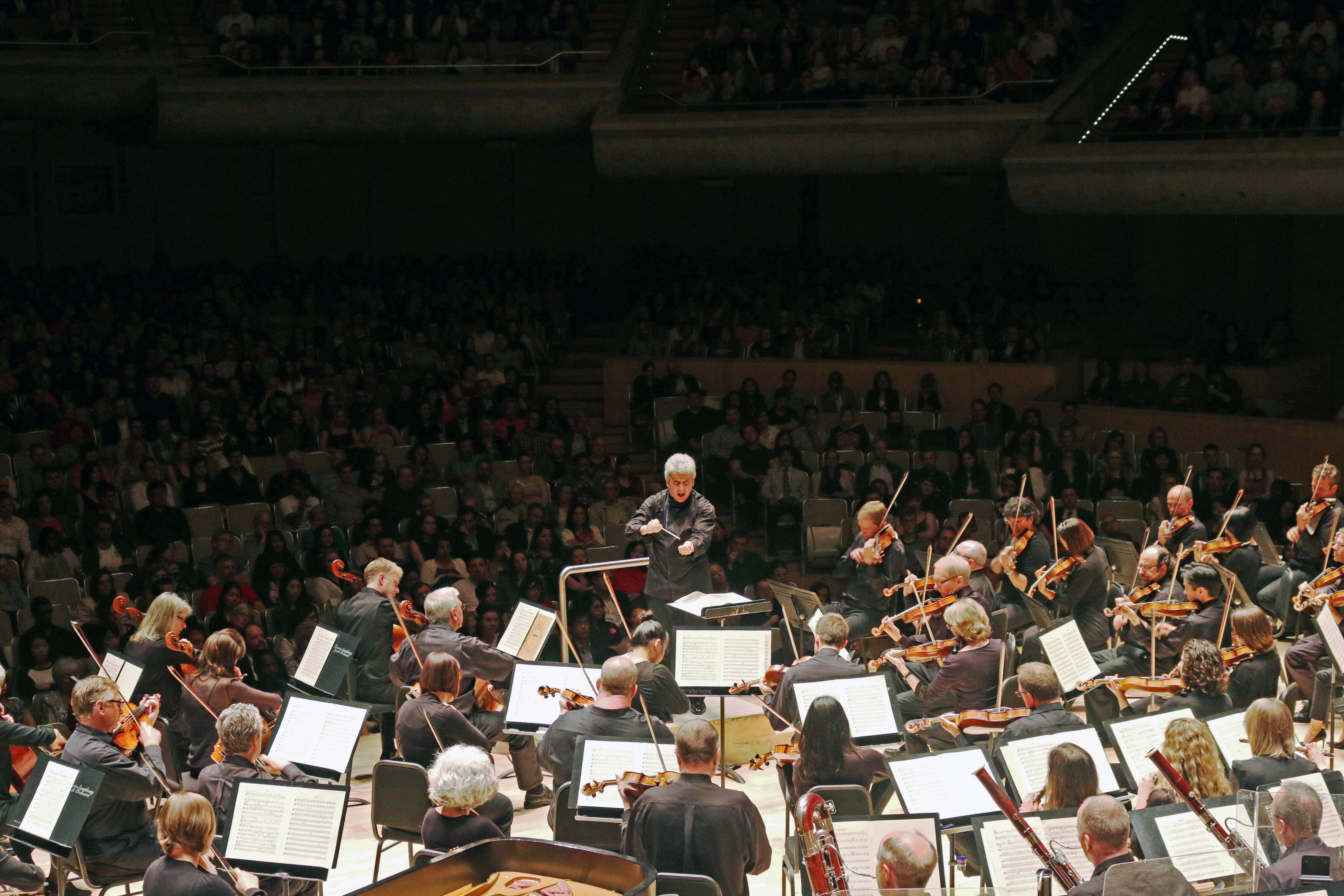 Peter Oundjian conducts Toronto Symphony Orchestra, Roy Thomson Hall, Toronto, Canada, 14 June 2014 - Photo by Pejman Akbarzadeh / Persian Dutch Network